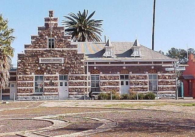 Middelburg station, Mpumalanga This media shows a South African Protected Site with SAHRA file reference 9/2/242/0015 .